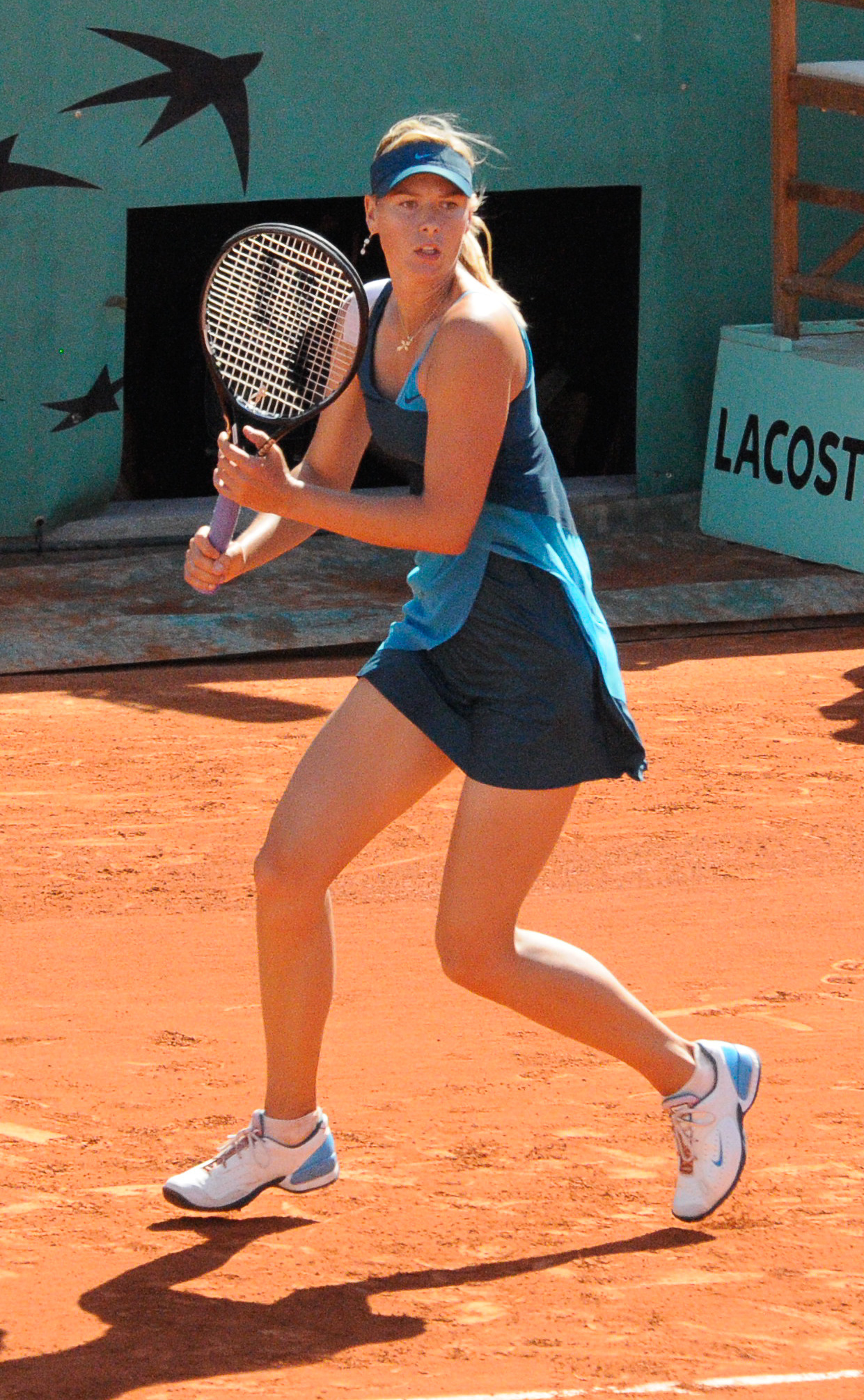 Maria Sharapova at 2009 Roland Garros, Paris, France